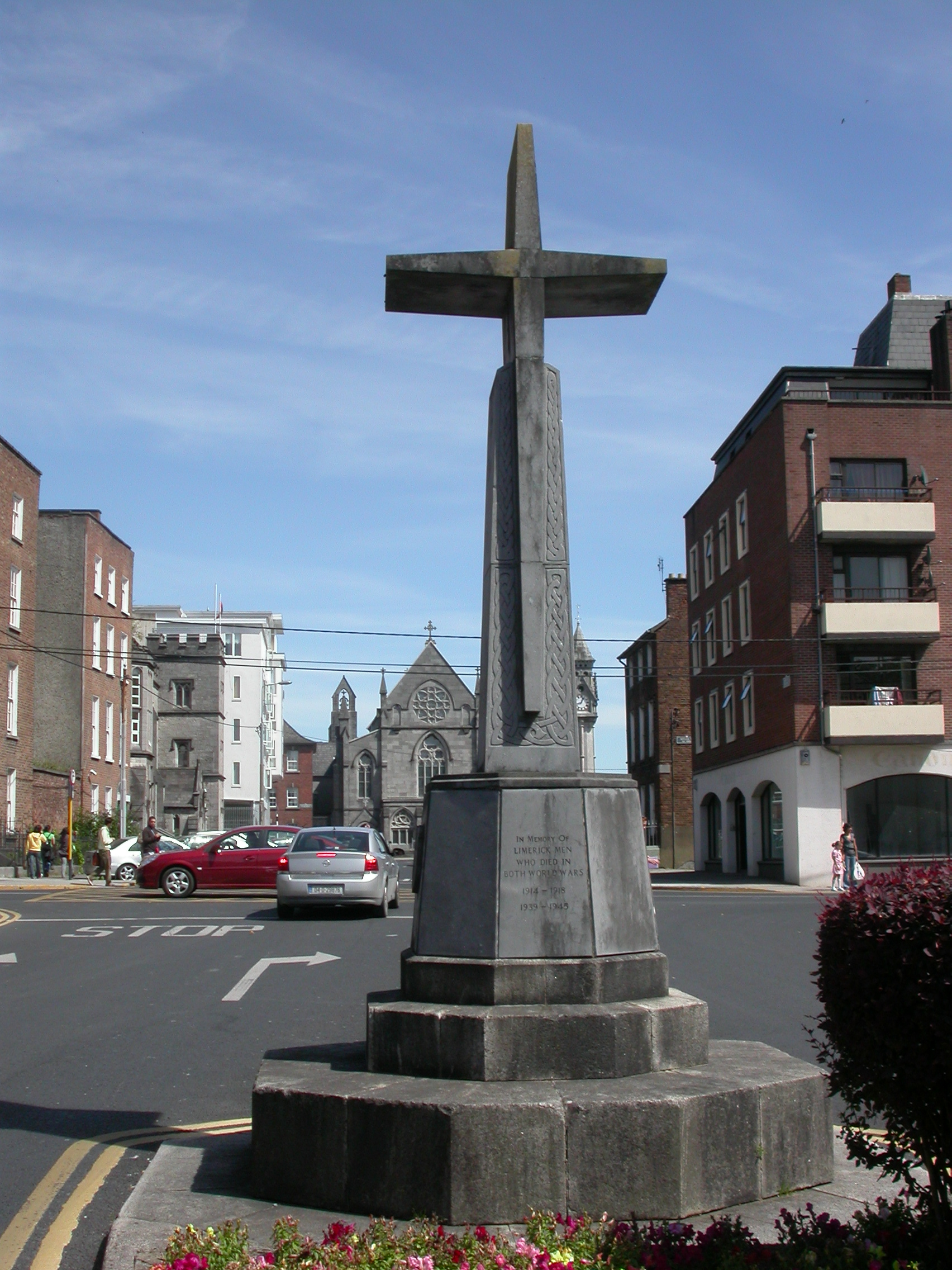 Leacht cuimhneachain an Chead Cogadh Domhanda, Luimneach